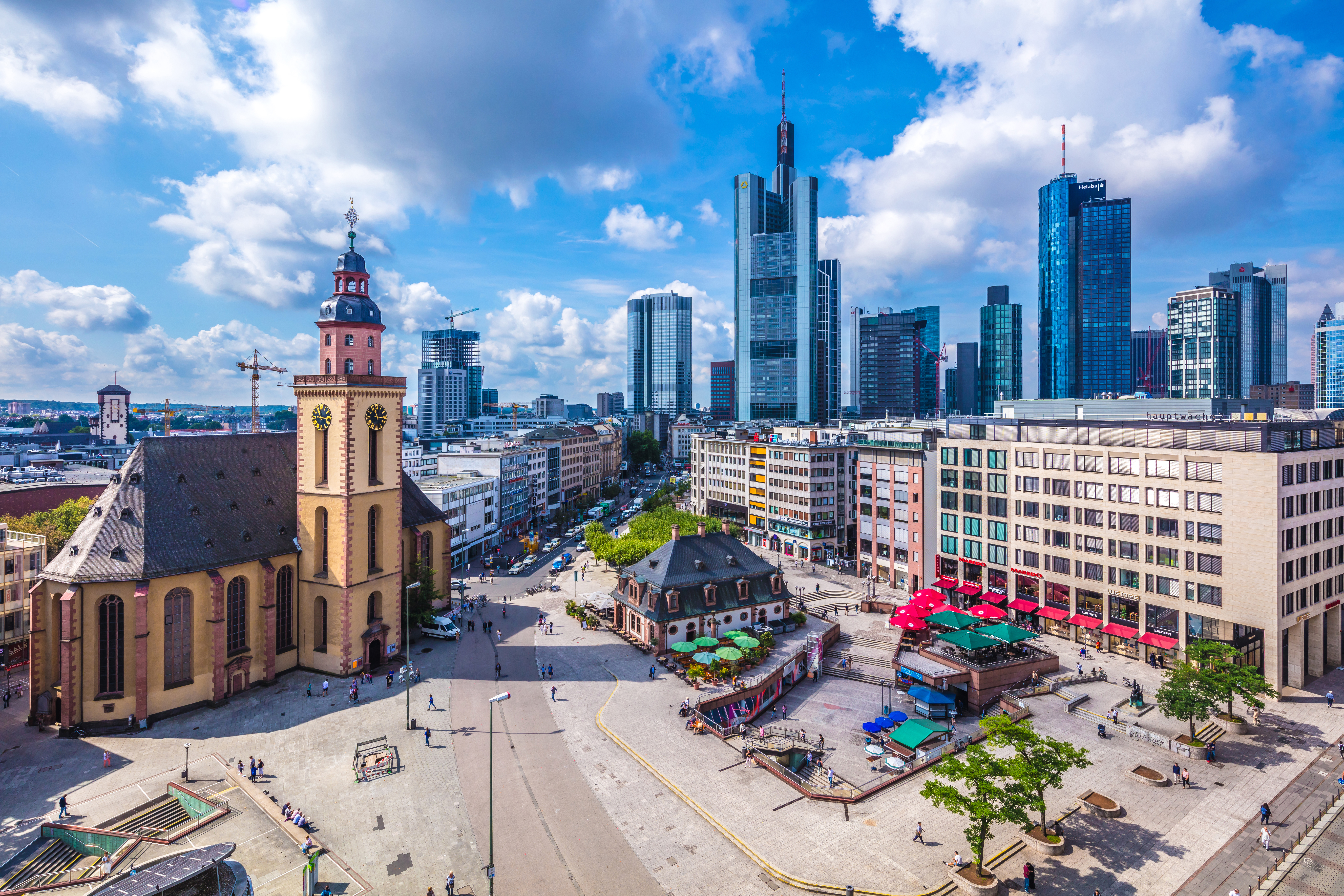 The Hauptwache (Main Guardroom) and plaza view from Galeria Kaufhof (department store) , Frankfurt on the Main (08/2017) - Human picture: (1 body / 1 lens / 1 human = 1 picture ) 0% AI ... ;- ) ... Following vandalization (Rotterdam) of my work, final stop of this series on European cities. My work not being respected, I definitively stop my publications in Wikimedia Commons (including definition and quality updates). Final publication in Wikimedia Commons